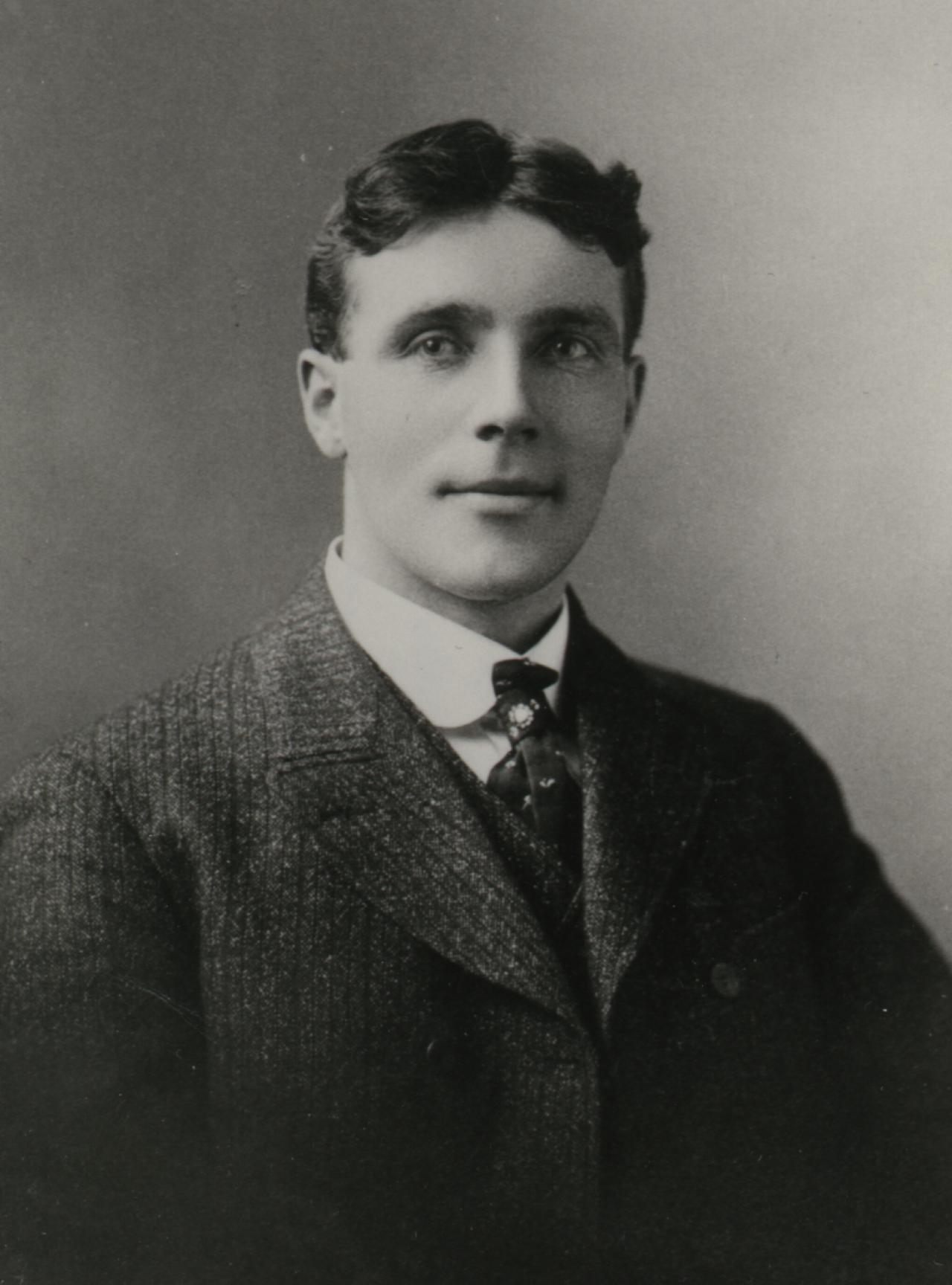 James Edward "Tip" O'Neill, a Canadian professional baseball player active from 1875 to 1892.